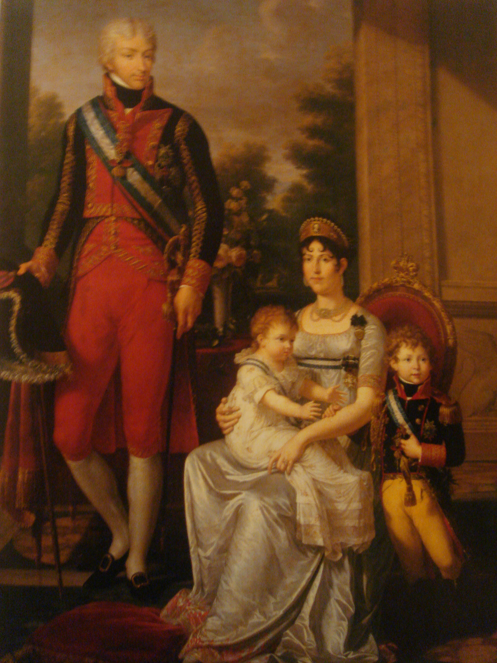 Portrait of Louis of Etruria's family, her wife Queen Maria Luisa (née María Luisa of Spain) and their two children: Charles Louis (1799–1883) and Maria Luisa Carlota, Crown Princess of Saxony (1802–1857).